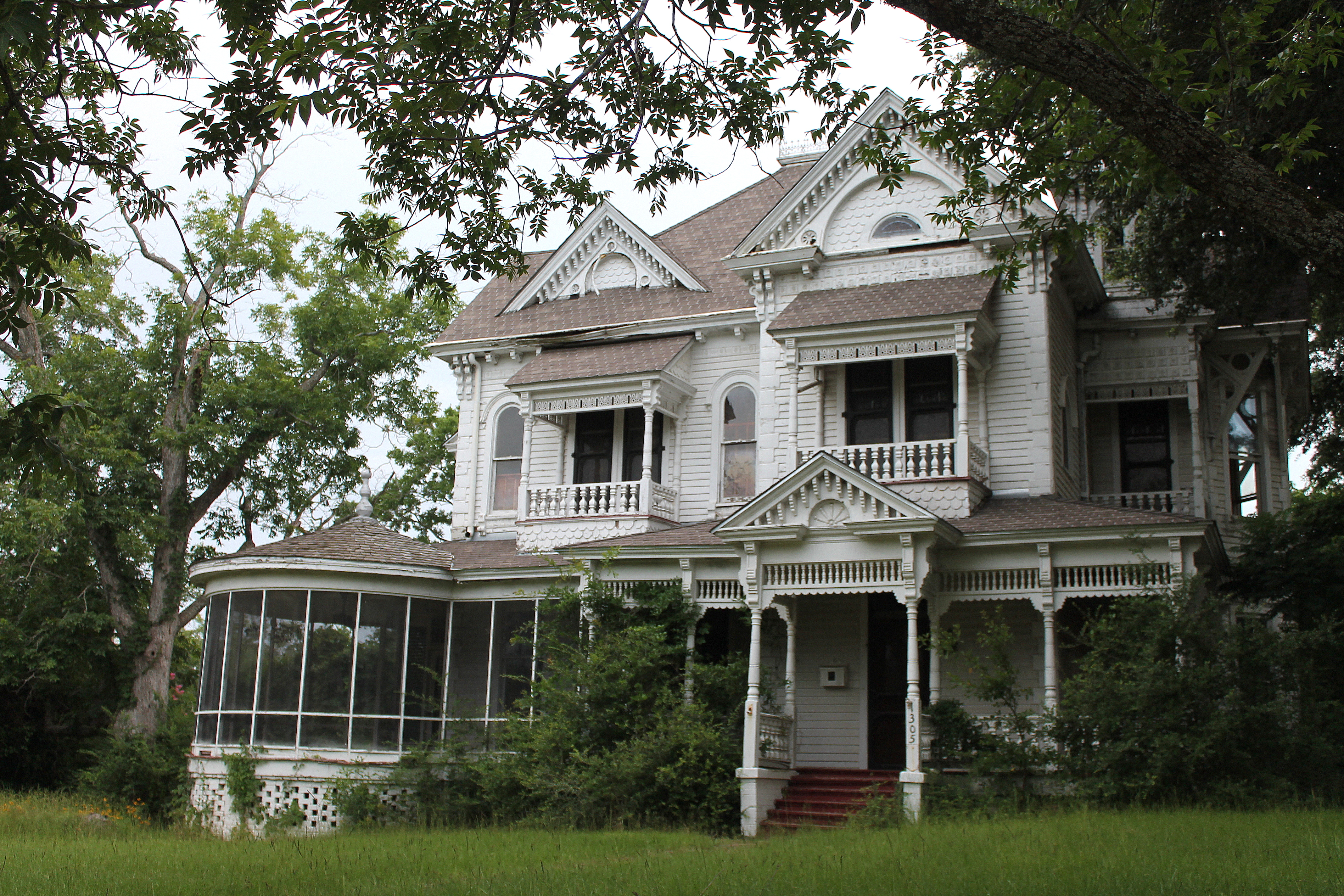 William and Caroline Broyles House in Palestine, Texas